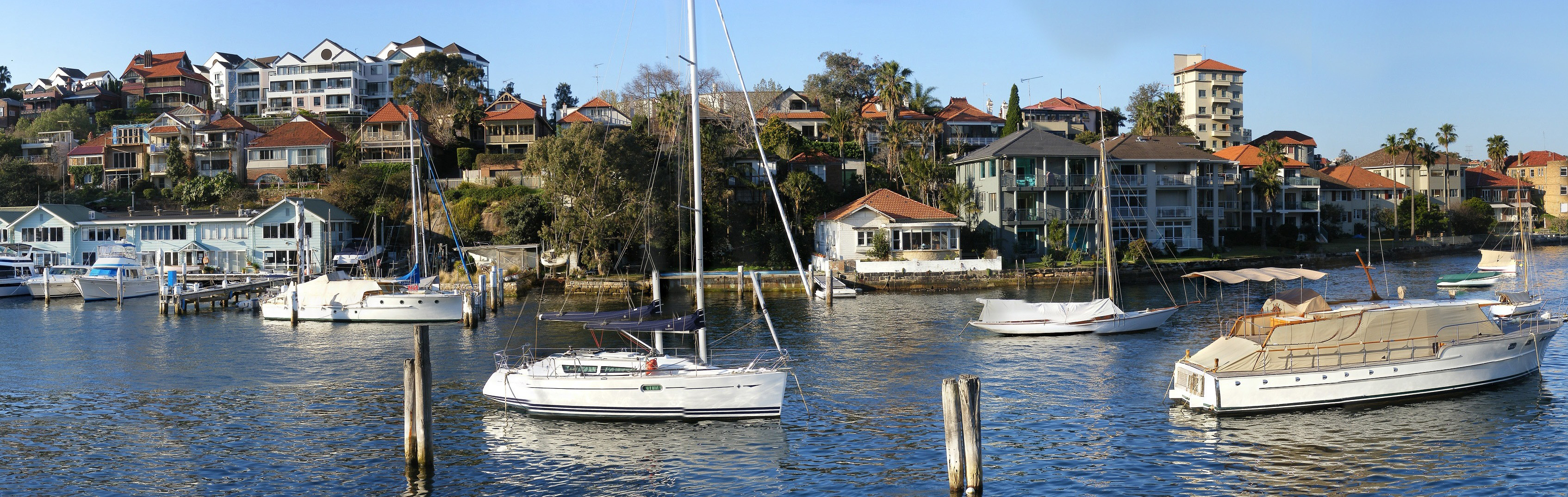 Kirribilli, Sydney, New South Wales, Australia